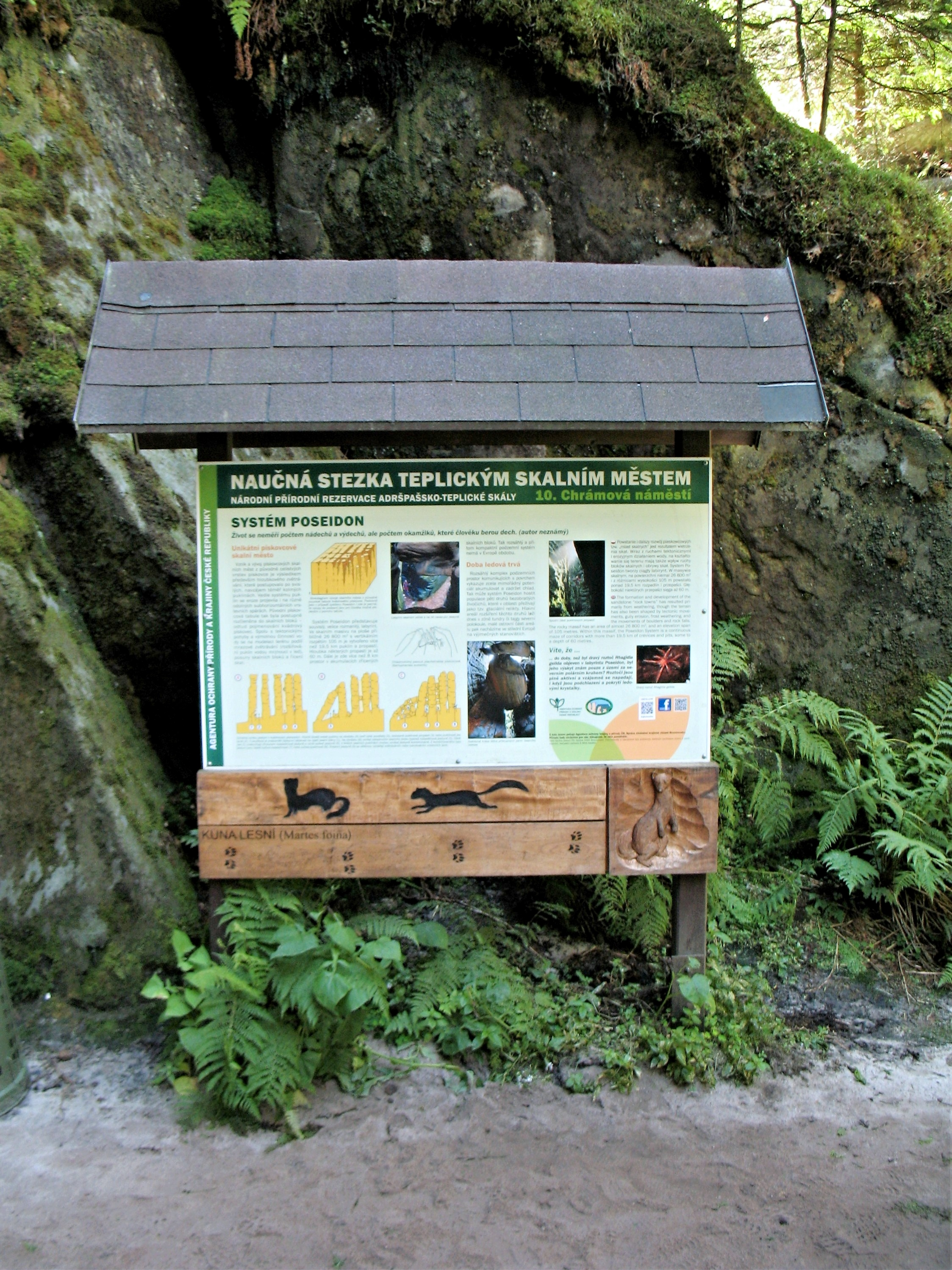 Information about underground system Poseidon, rocks Teplické skály, Czech Republic